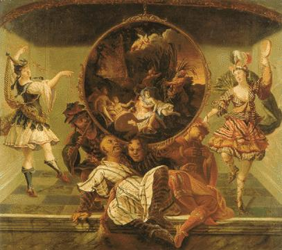 Chinoiserie_Figures_Surrounding_a_Painting_Depicting_a_Satyr_Threatening_Diana_and_Her_Nymphs_by_Jacques_Vigoureux_Duplessis